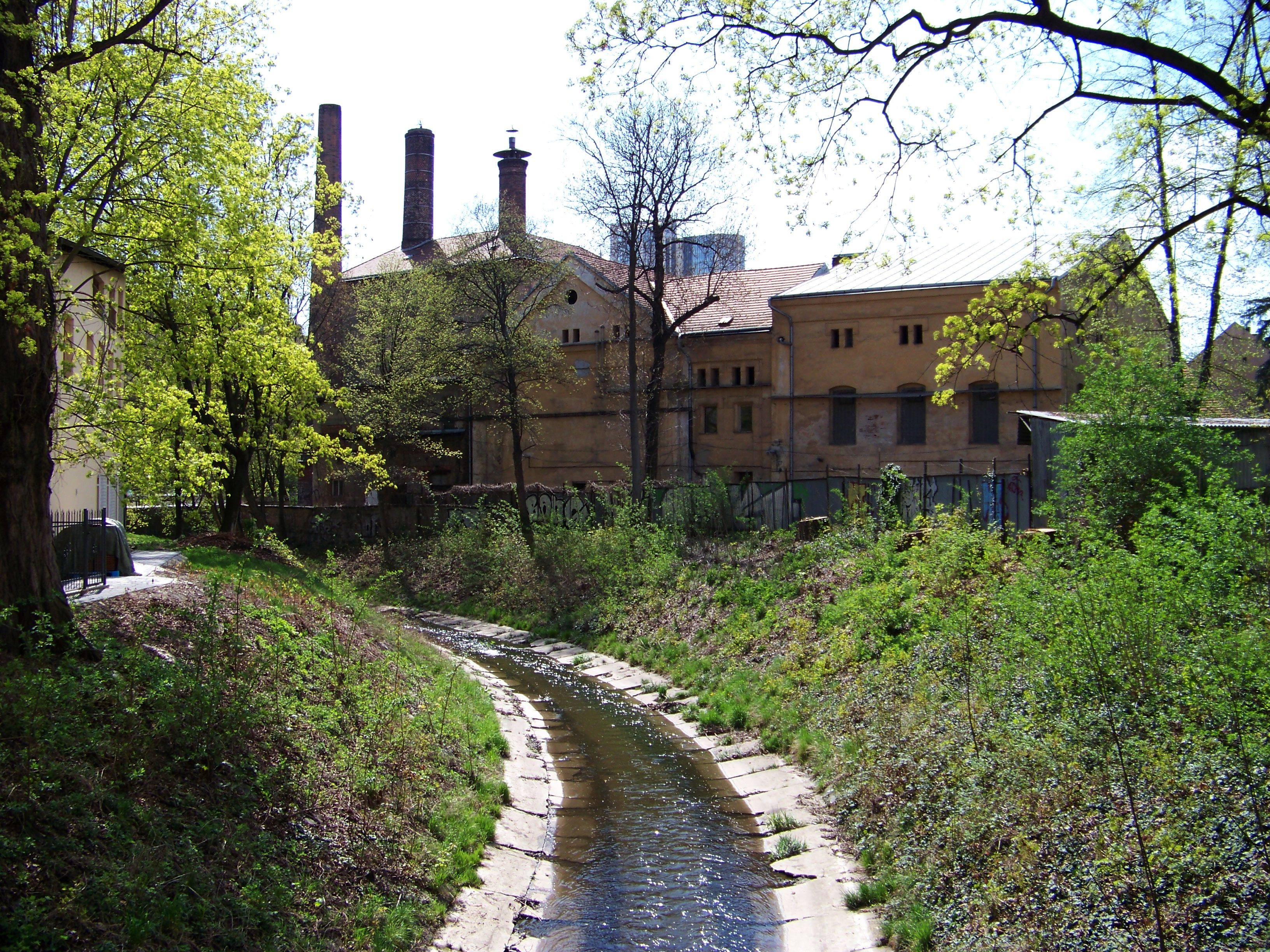 Prague-Nusle, the Czech Republic. Botič creek and Nusle brewery, seen from Bělehradská street.